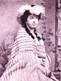 Countess Julia Apraxin, actress and authoress on stage